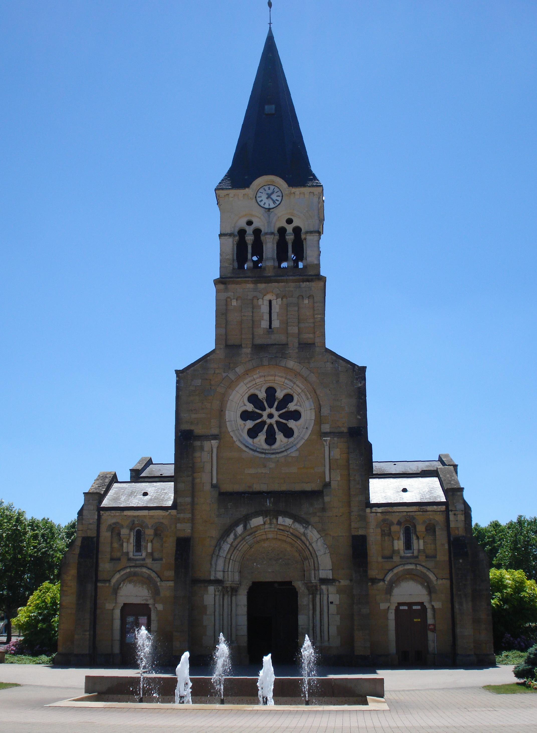 Church frontside, Gueugnon, Saône et Loire, Fr